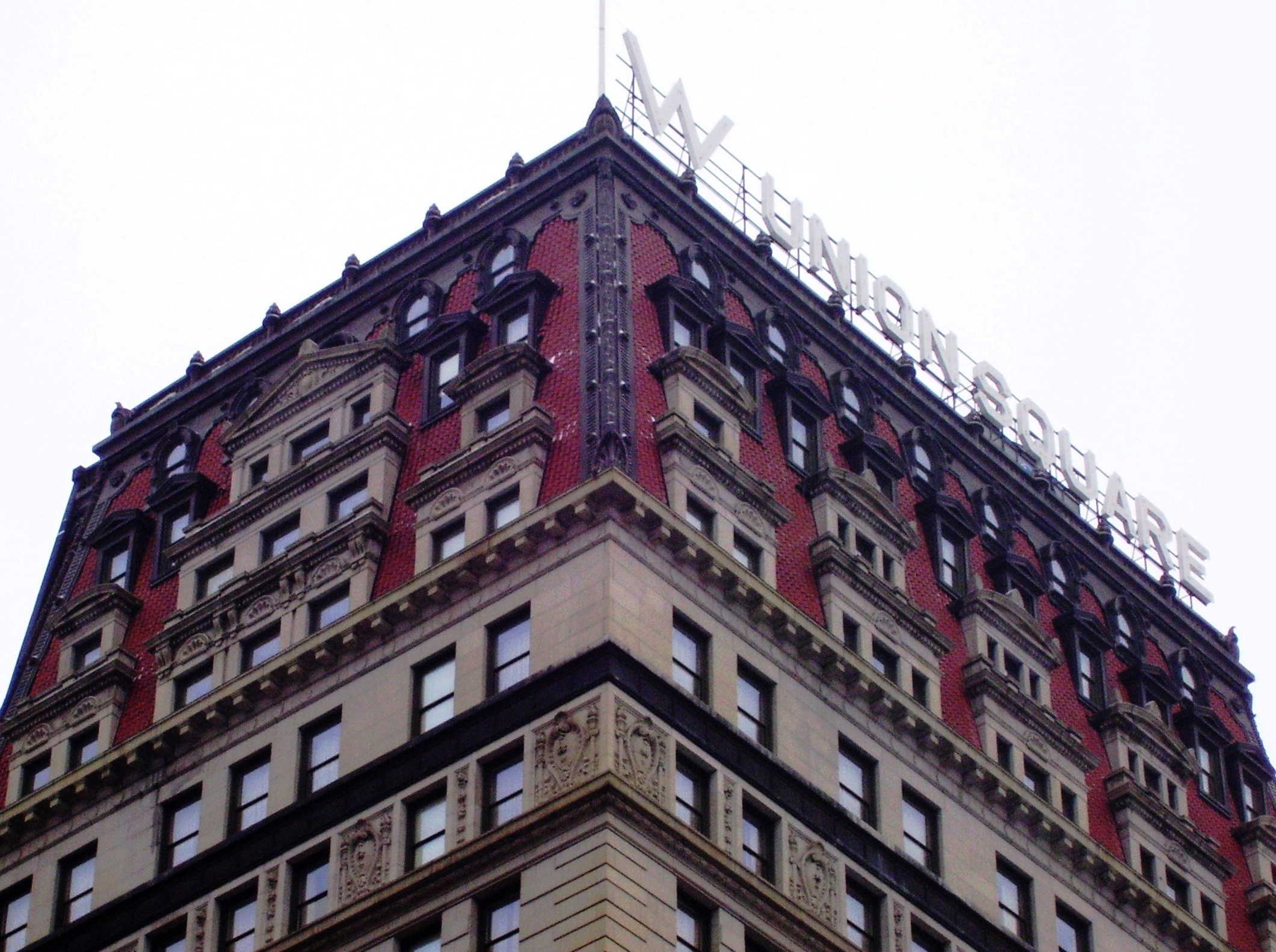 The mansard roof of the W Union Square Hotel on Park Avenue South and East 17th Street, Manhattan, New York City.